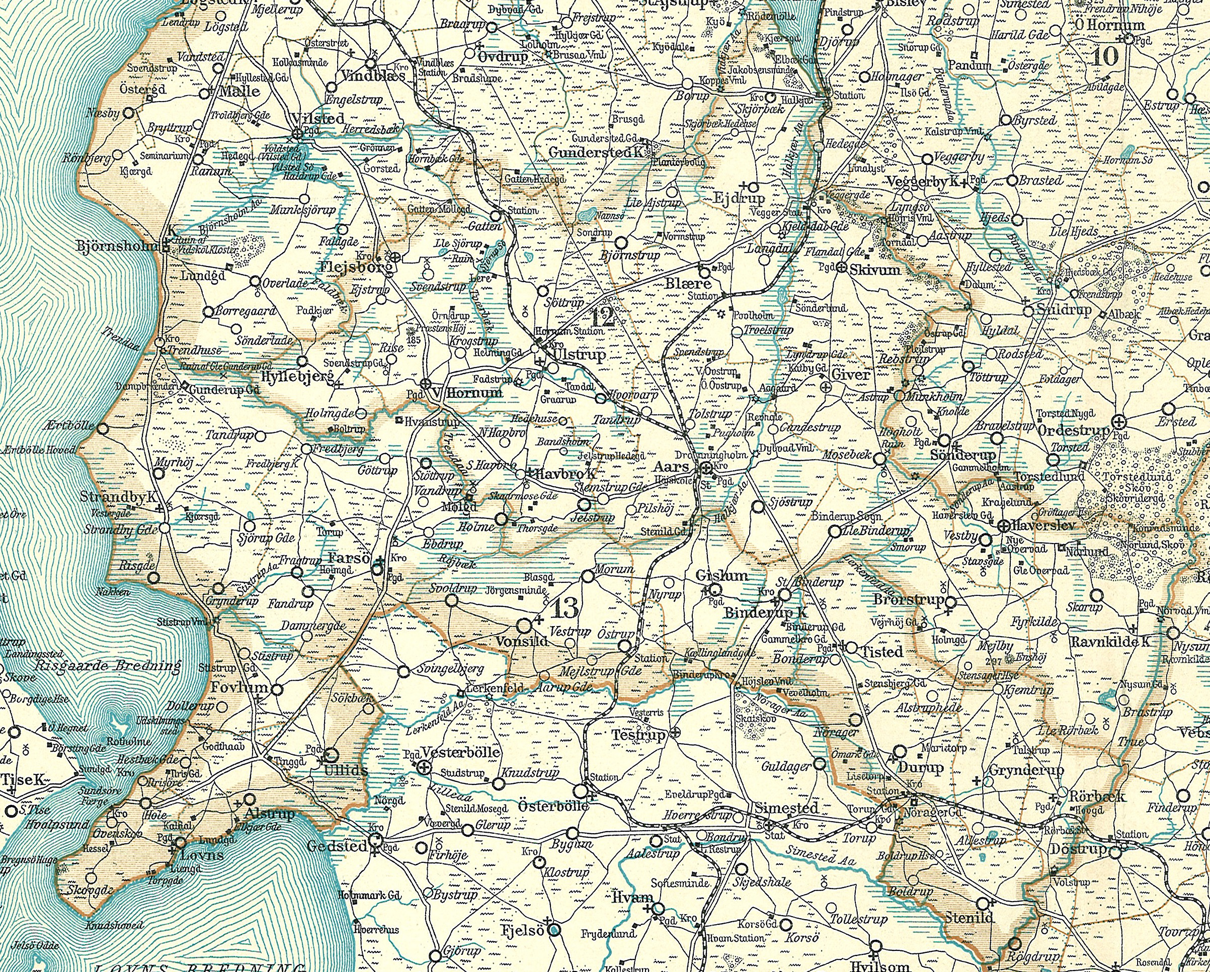 Map of Aars Herred Aalborg County in Denmark